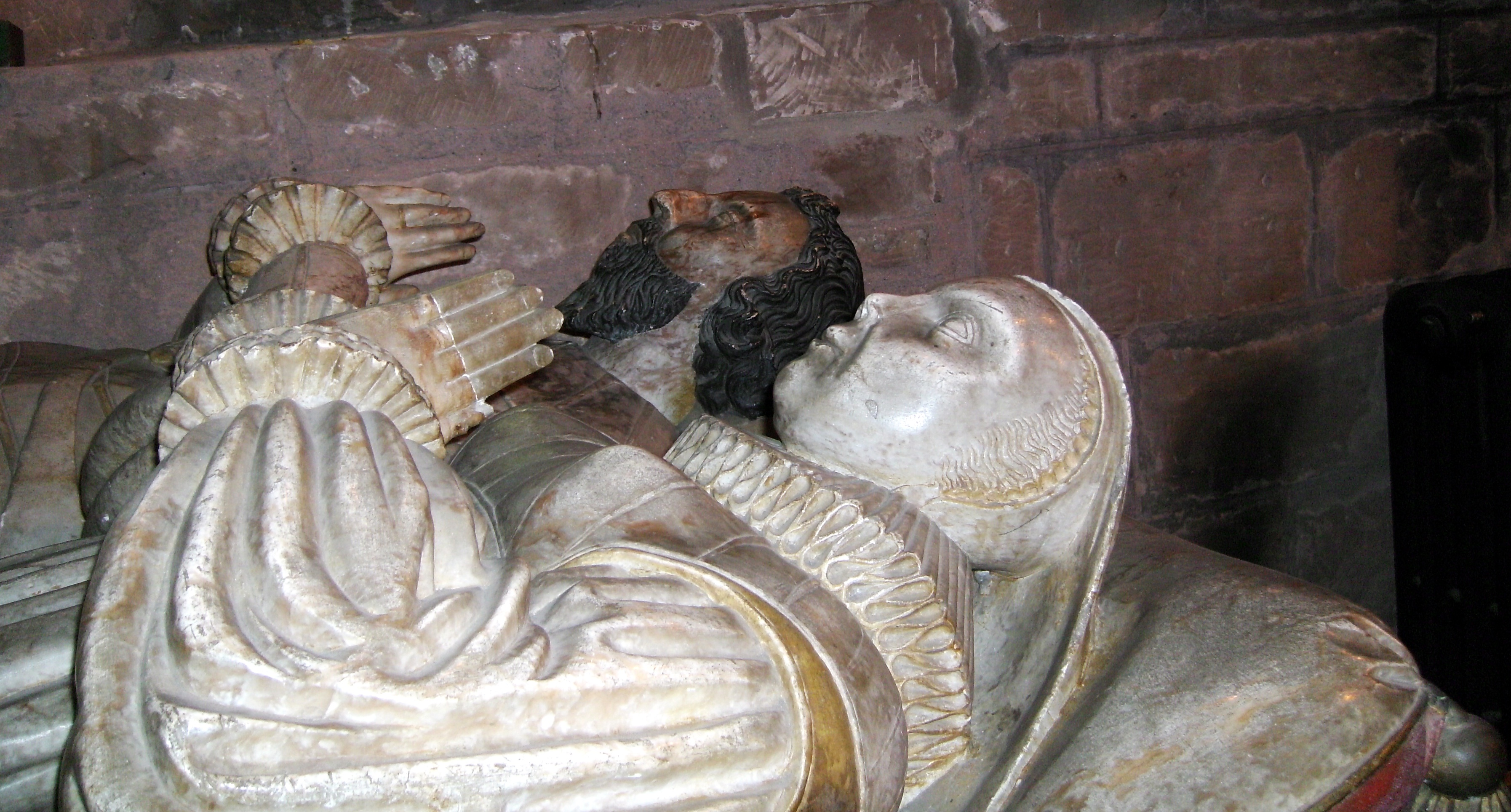 Tomb of Walter Giffard, Jacobean Recusant, and his wife Philippa in St Mary and St Chad church, Brewood, Staffordshire, England.